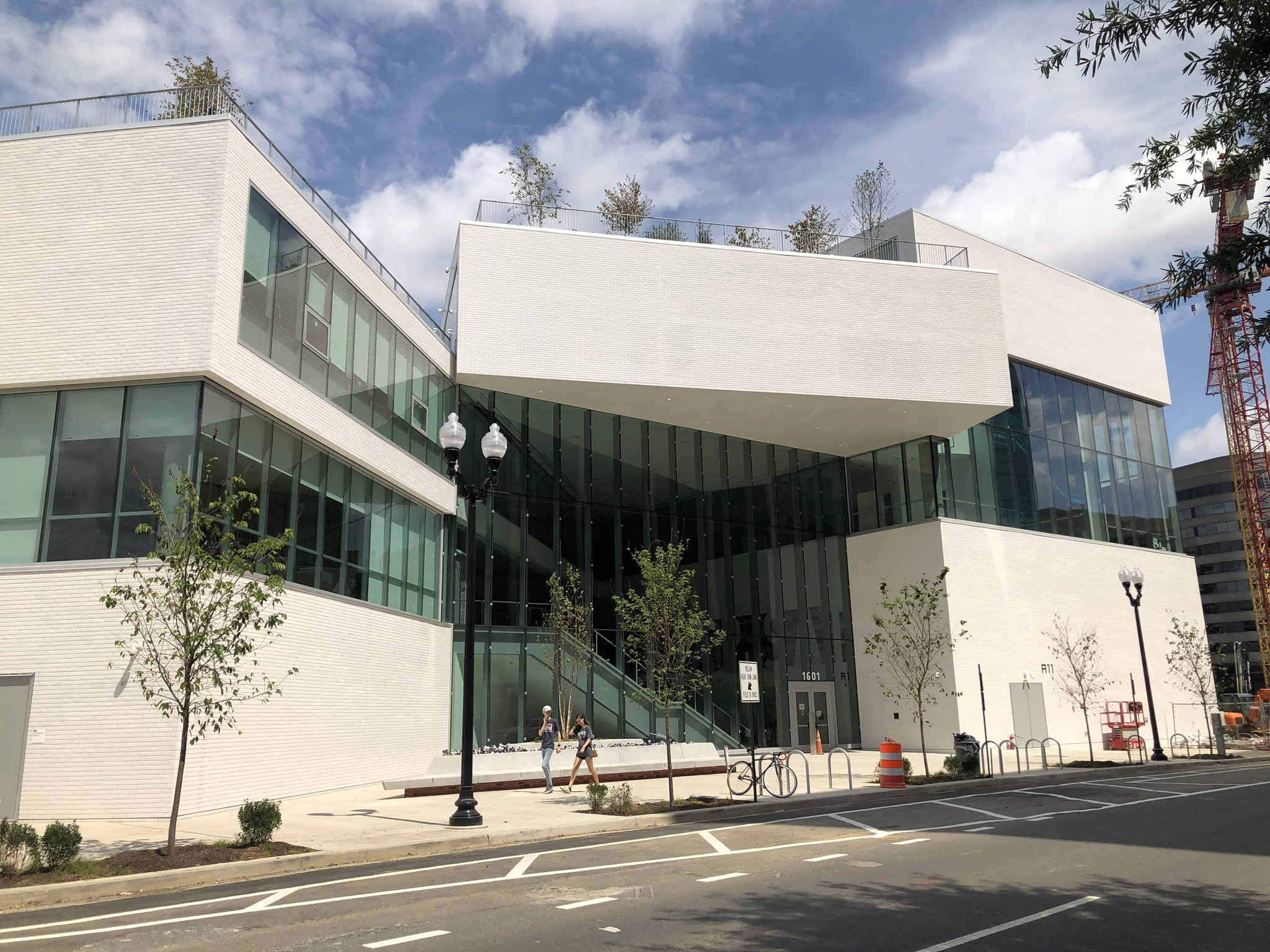 The exterior of the new HB Woodlawn building in Rosslyn.